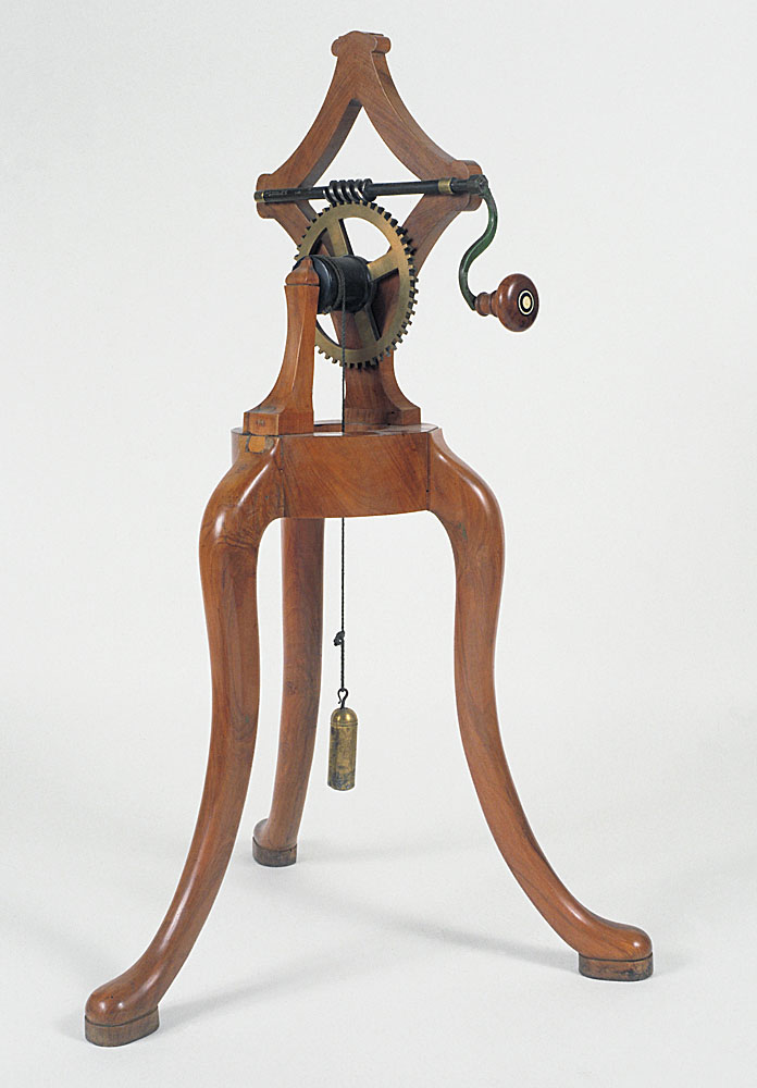 AuthorUnknownDescription